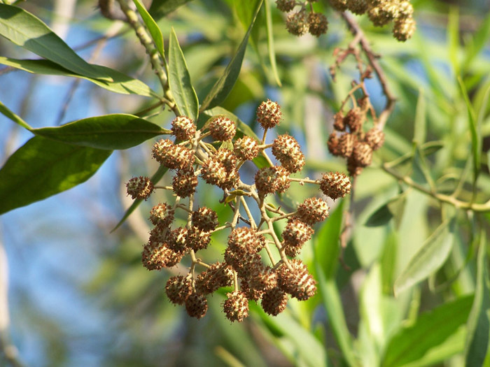 Fruit of Conocarpus lancifolius